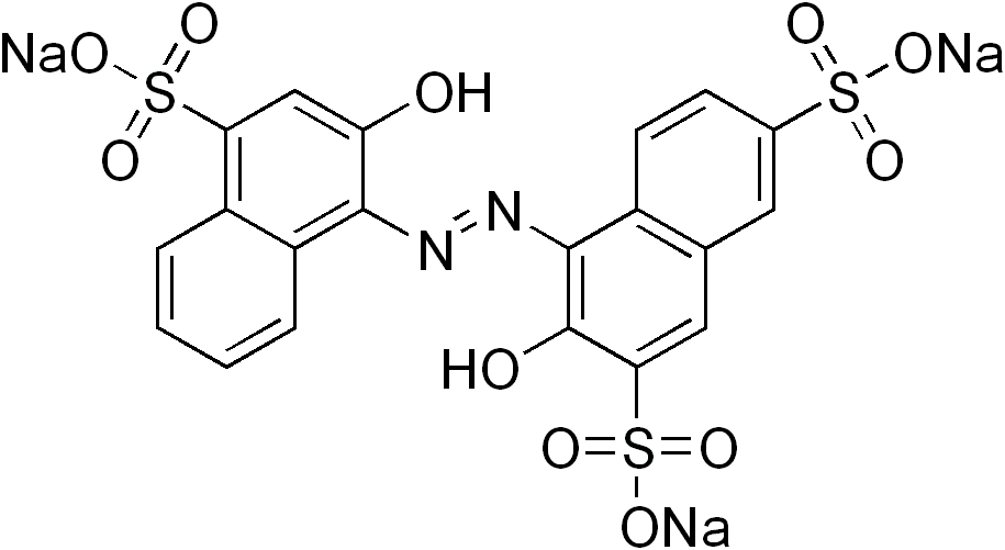 chemical structure of hydroxynaphthol blue